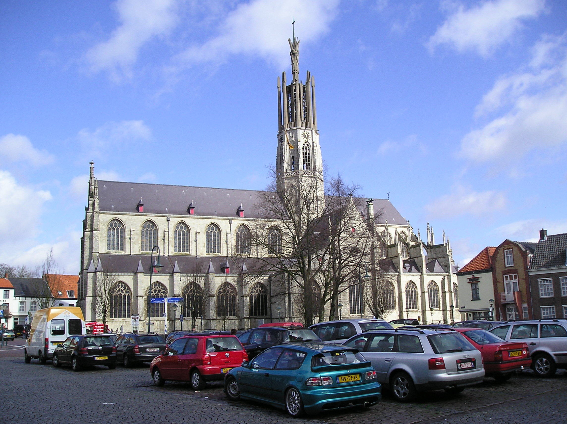 Church of Hulst, Netherlands.